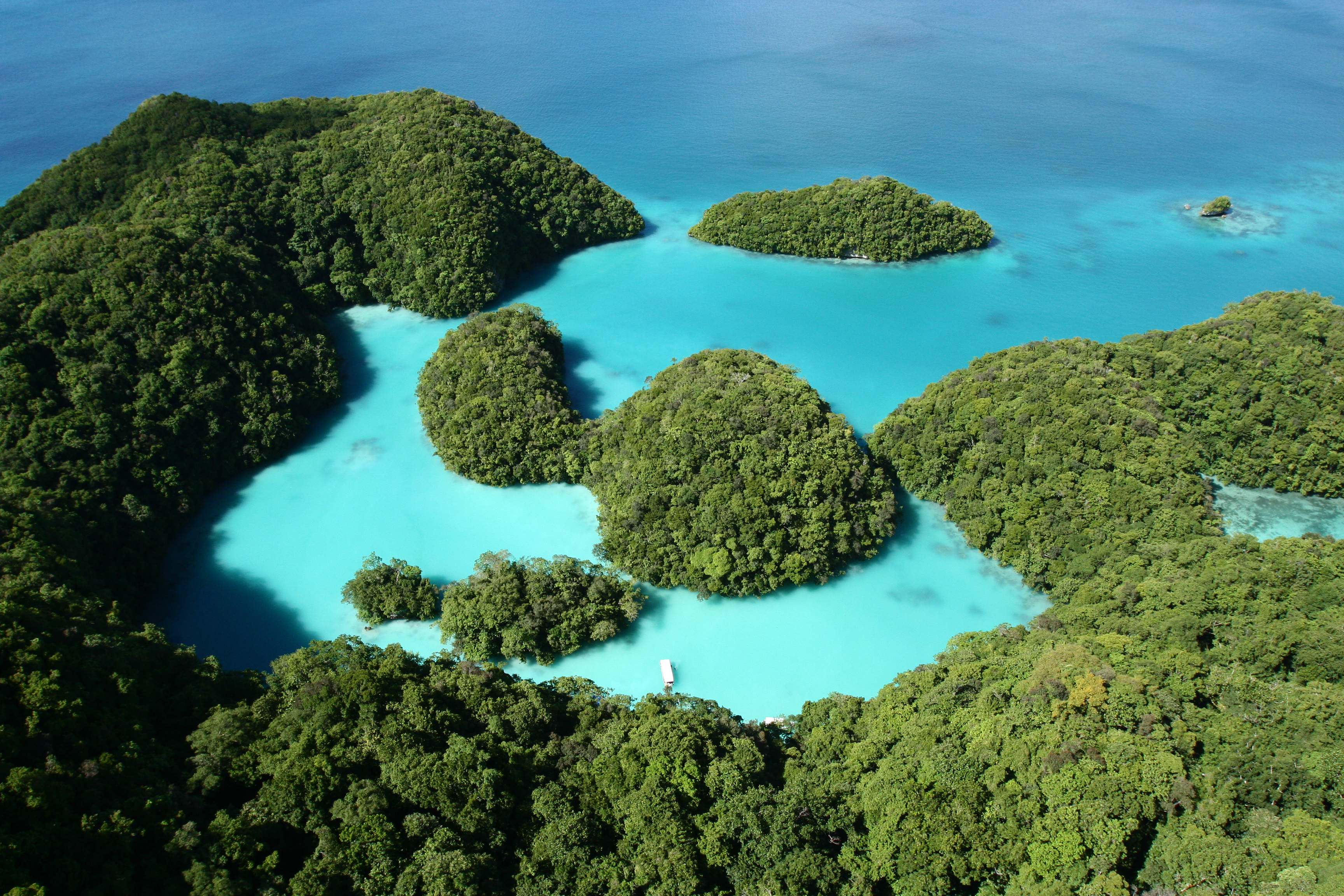 The "Milky Way" cove in Palau seen from the air.